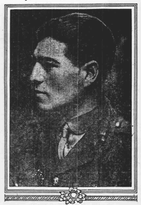 Newspaper photo of author A. Hamilton Gibbs.